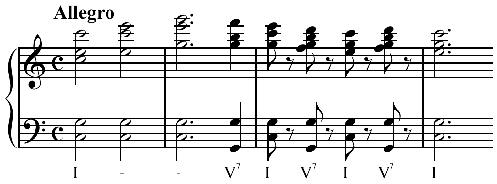 Dominant seventh in Beethoven's (1770–1827) Fifth Symphony, last movement.